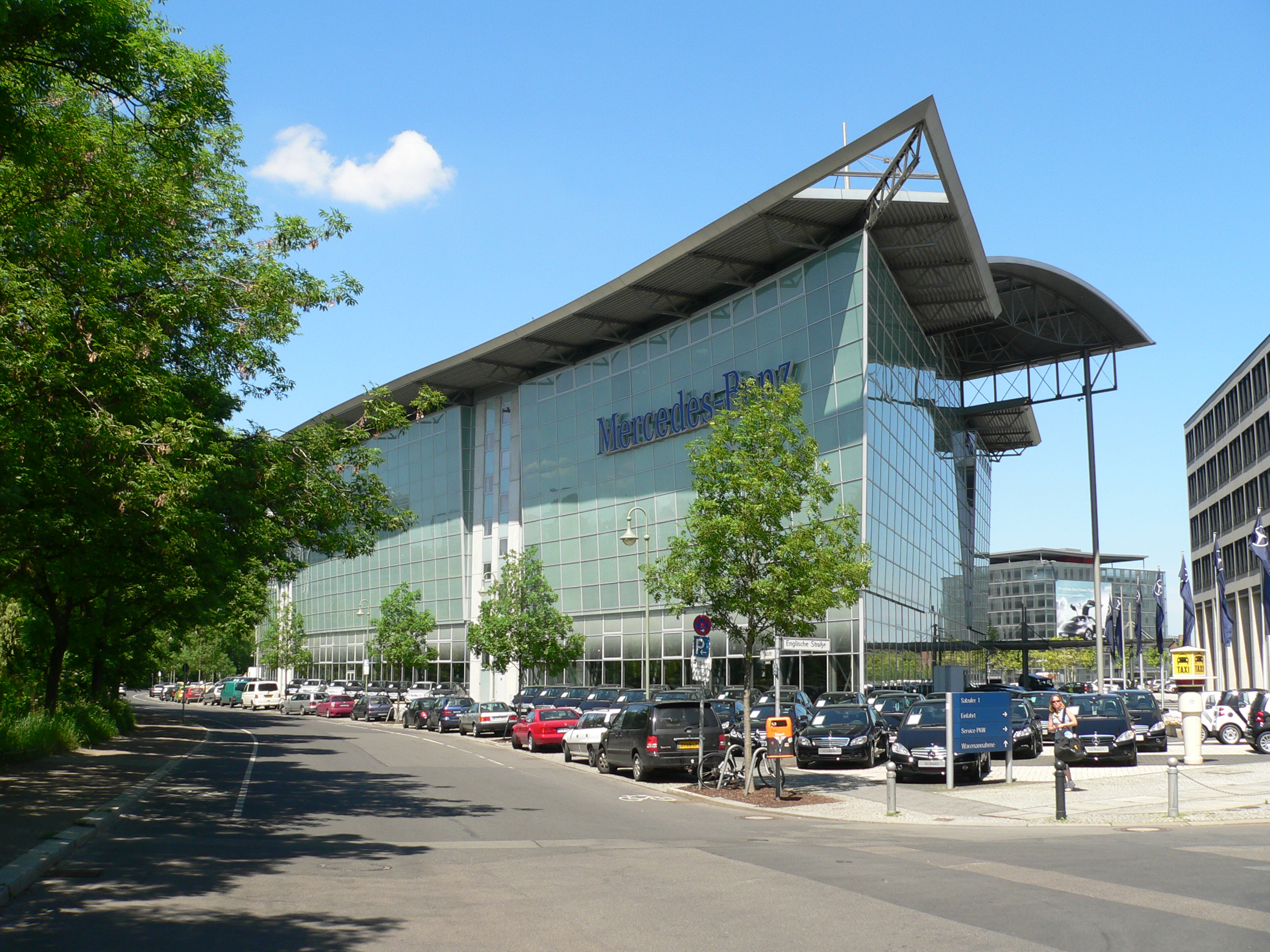 Berlin-Charlottenburg Mercedes-Benz representation at Salzufer